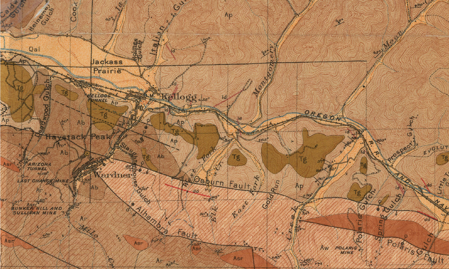 1907 Kellogg Idaho geologic map, where m is monzonite and syenite, Ap is Prichard Slate, Ab is Burke Formation, Ar is Revett Quartzite, Asr is St. Regis Formation, Aw is Wallace Formation, Asp is Striped Peak Formation, Tg are Tertiary terrace gravels, Qgl is Quaternary glacial deposits, Qal is Quaternary alluvium, x is a prospect pit and y is a tunnel